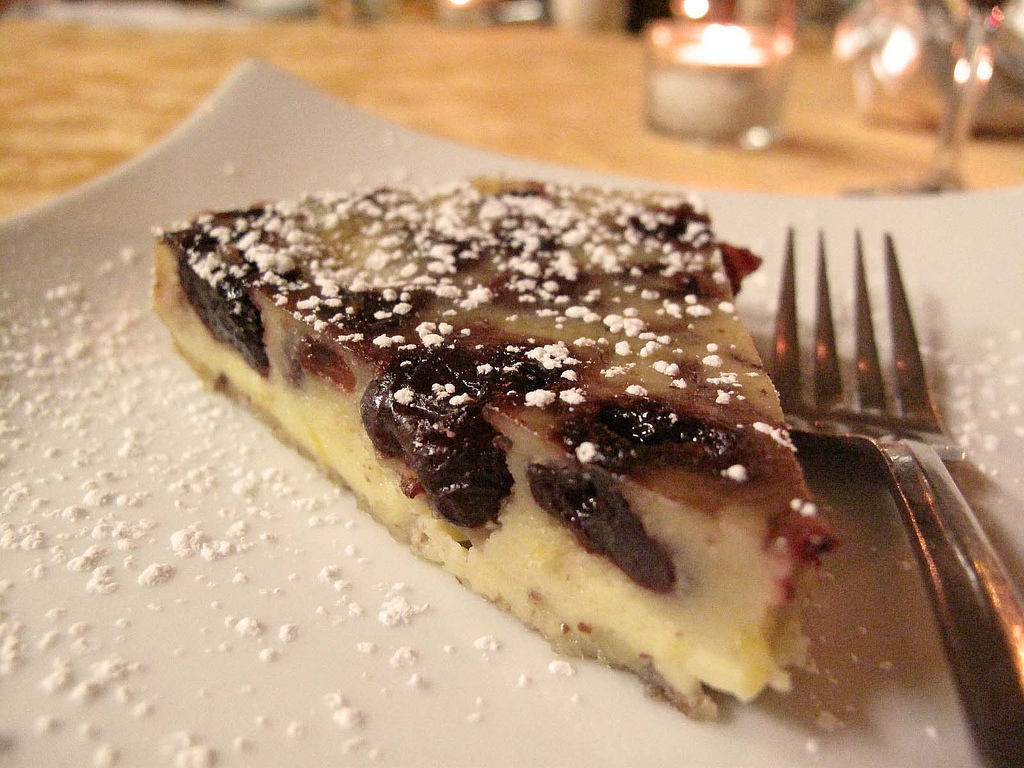 Zinfandel Soaked Cherry Clafoutis.